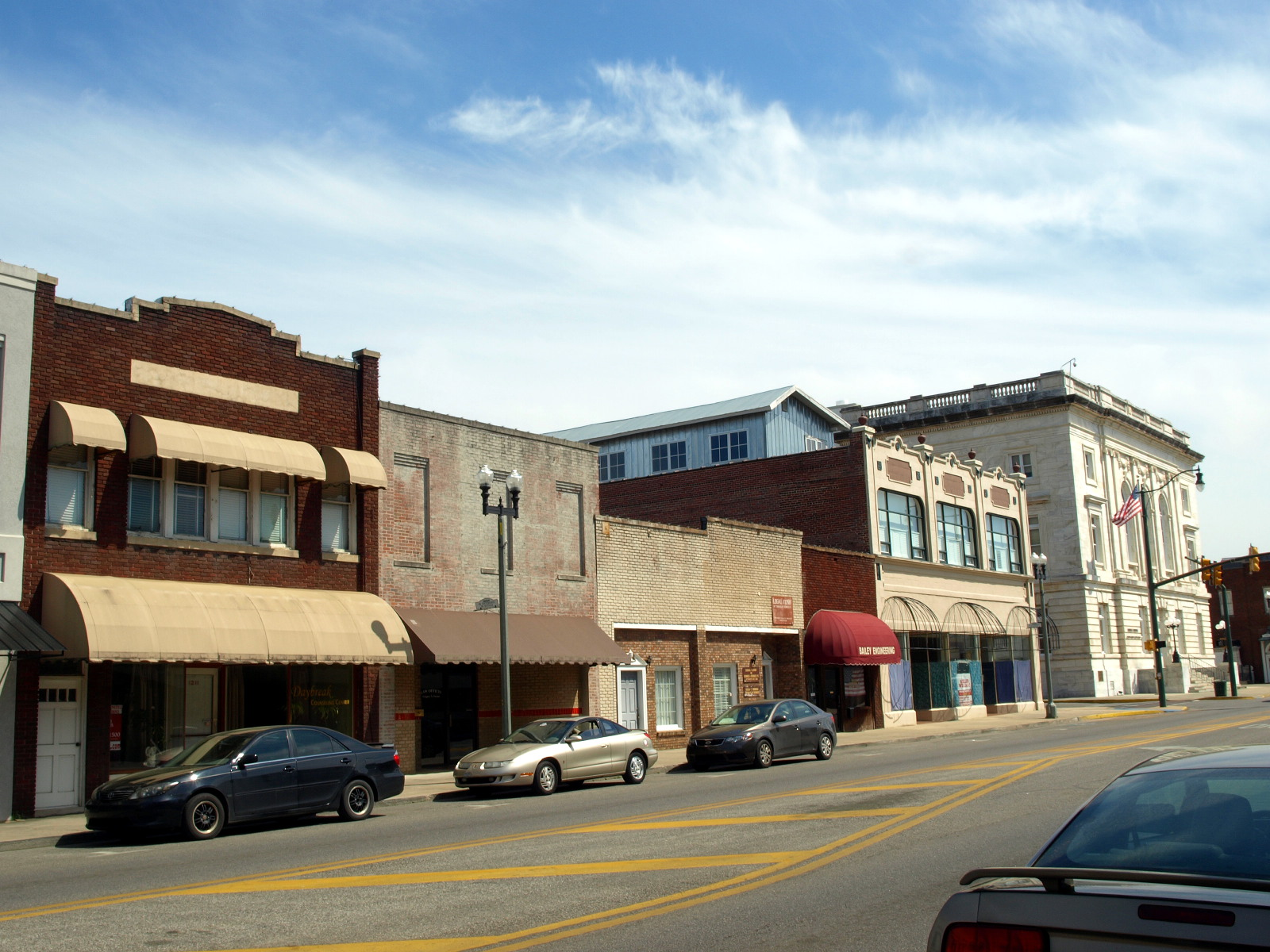 1211-1129 Noble Street in Anniston, Alabama, part of the Downtown Anniston Historic District. The U.S. Post Office and Montgomery Ward-Alabama Power Company Building are at right.